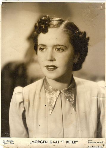 Promo photo of Lily Bouwmeester